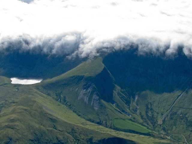 Clouds about to pour over Erw y Ddafad ddu This aerial photo shows the structure of the land very clearly. Glaciers flowing north and south (right and left) have crept backwards, eroding the rock until only a narrow neck of land connects this sloping plateau with the ridge called Aran Benllyn to the north and Aran Fawddwy to the south. Creiglyn Dyfi is the lake on the left.